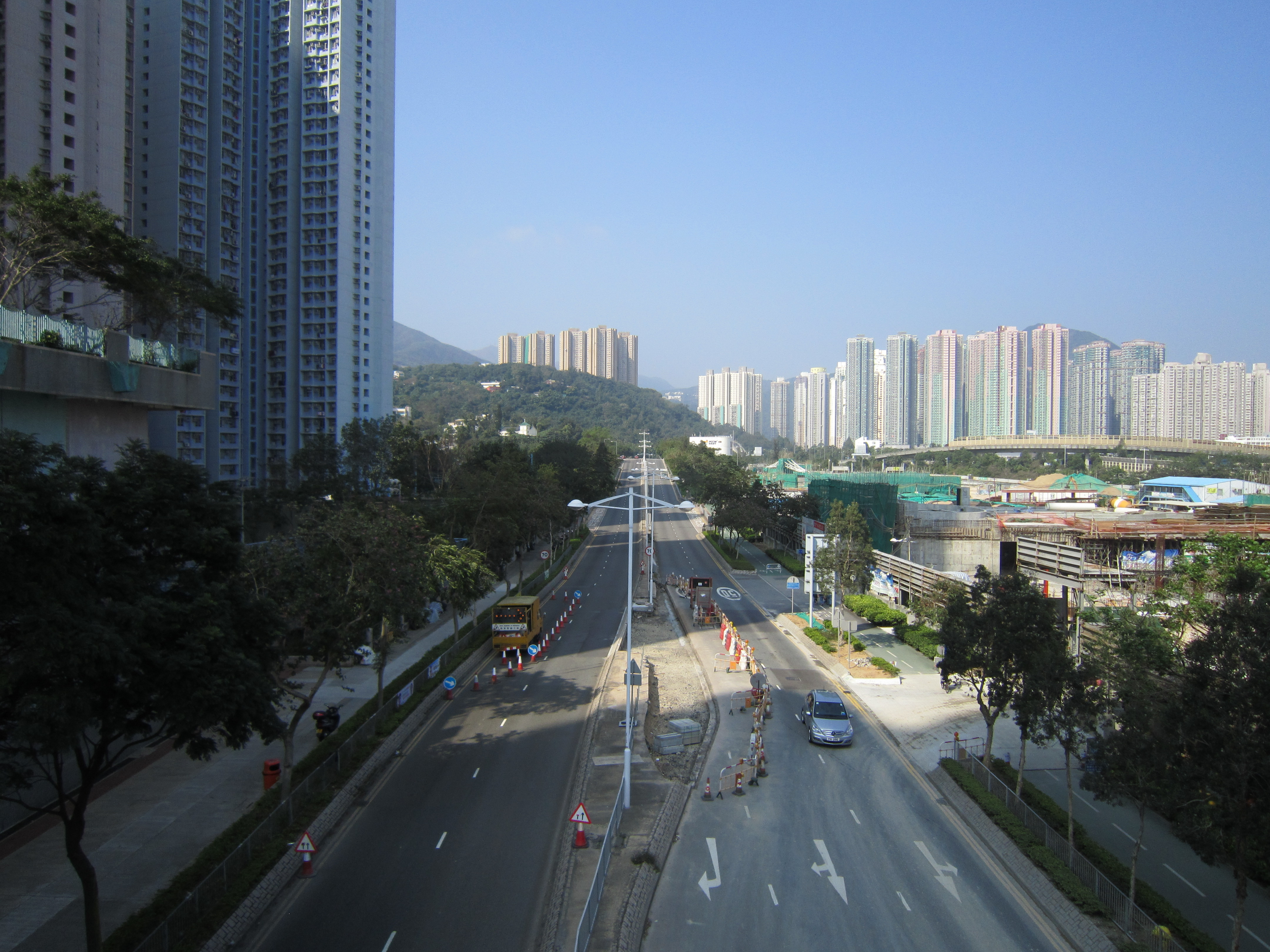 Po Hong Road viewing north.中文（香港）: 從將軍澳南望向寶康路。